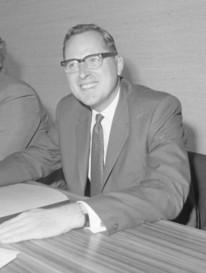 Title: Bonn, Wirtschaftsmin. der Niederlande J. E. Andriessen Bonn People in the image: Jacobus Eye (Koos) Andriessen: Minister of Economy, Netherlands Factual corrections and alternative descriptions are encouraged separately from the original description. Additionally errors can be reported at this page to inform the Bundesarchiv. Original historic description